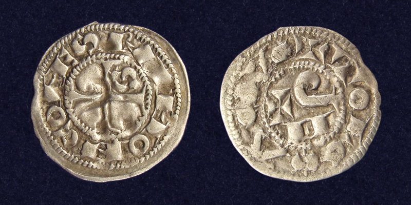 France Provincial, Toulouse, AR Obol, Raymond V-VI (1148-1249). Obverse: Cross pattée with S in top quarter. Legend: RAMON COMES (S partly turned sideways). Reverse: P Λ X clockwise in center. Legend: + TOLOSA CIVI (S sideways).